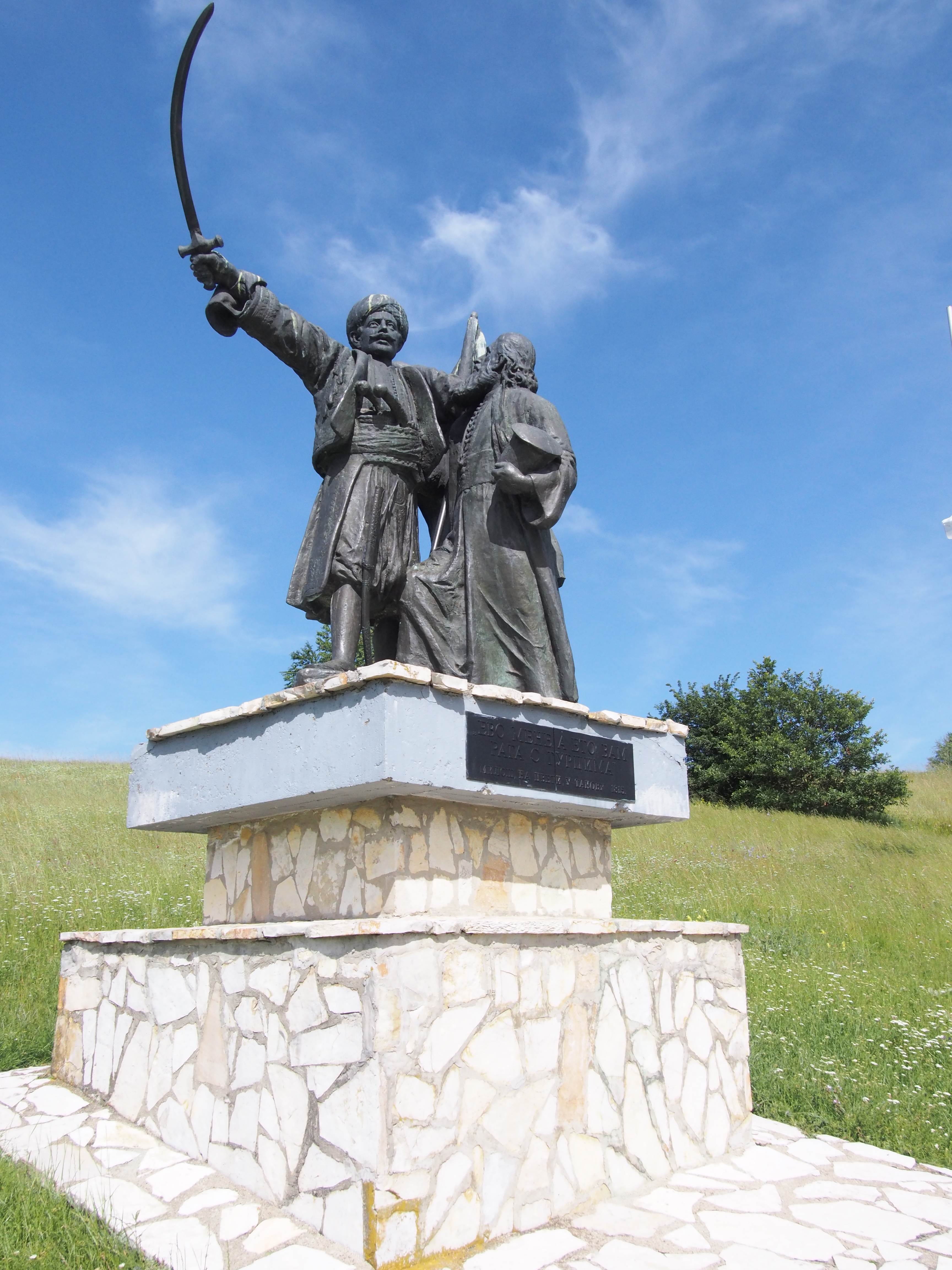 Monument "Takovski ustanak" (Takovo uprising) in Takovo, Serbia; monument by Petar Ubavkić (1900)